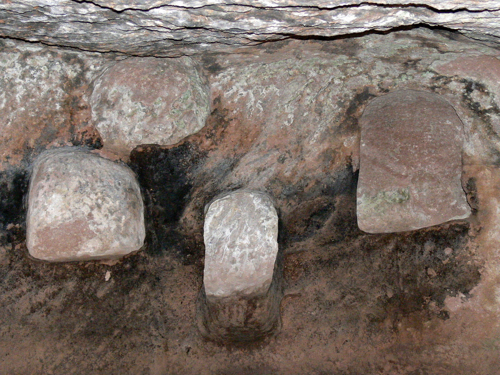 Özkonak ( Avanos/ Turkey ). Underground city - niches.